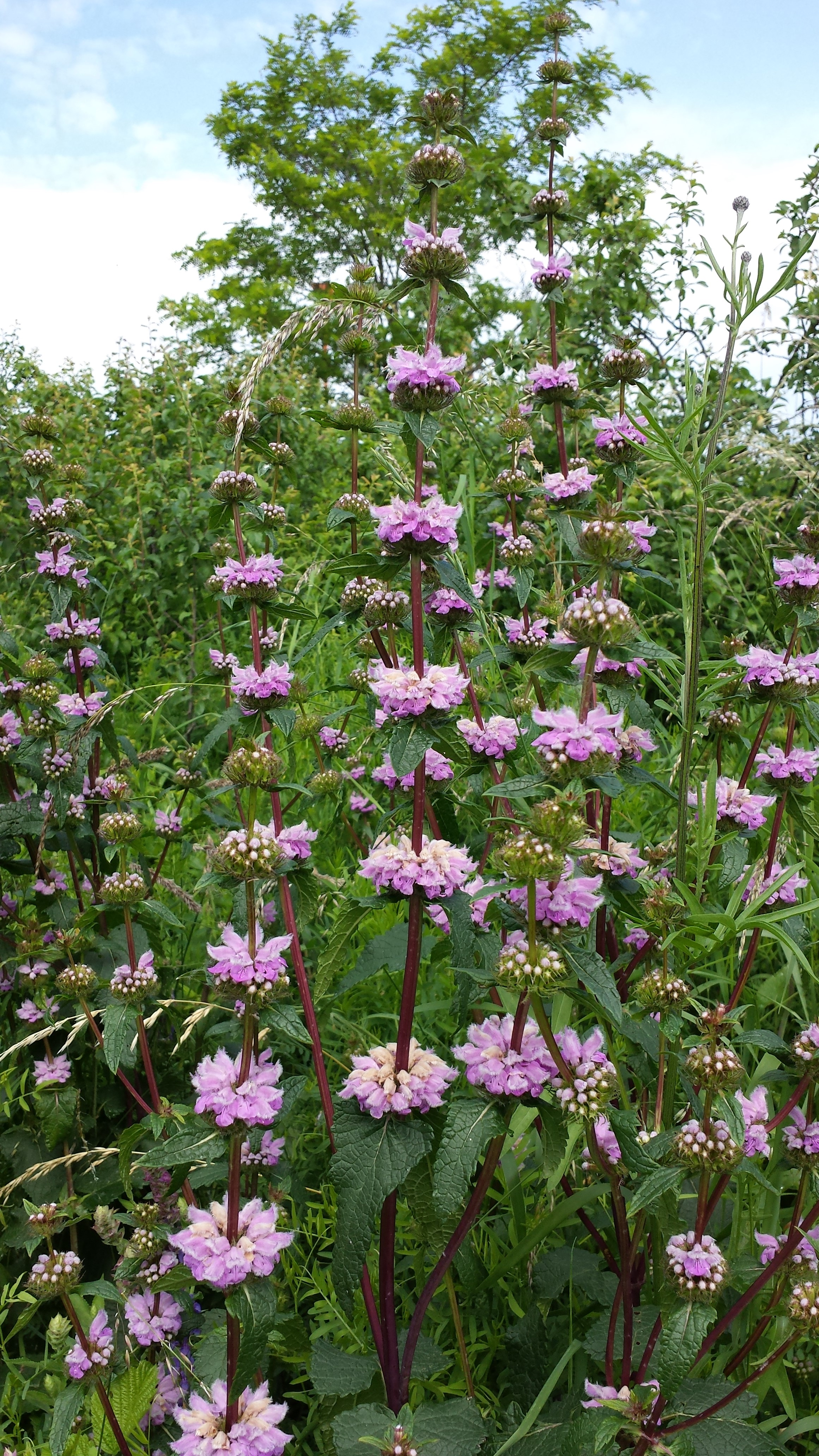 Habitus Taxon: Phlomis tuberosa (sensu Fischer et al. EfÖLS 2008) Location: Gallows hill near Oberstinkenbrunn, district Hollabrunn, Lower Austria - ca. 340 m a.s.l. Habitat: dry grassland